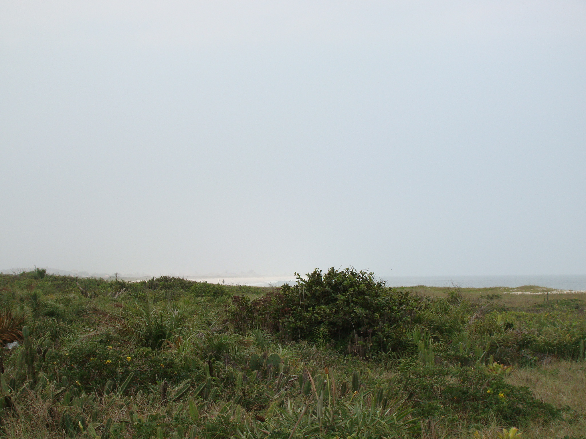 Land arenaceous and saline, next to the sea and covered of characteristic herbaceous plants, known in Brazil as " restinga"